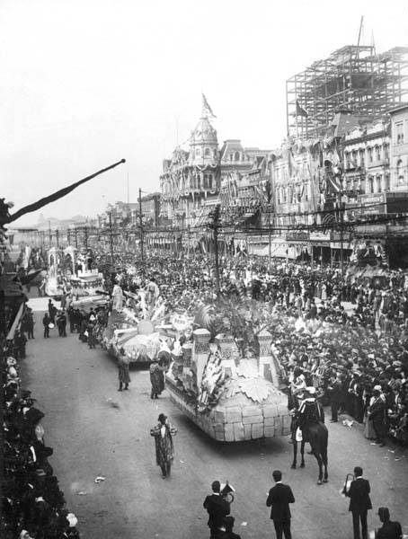 New Orleans Mardi Gras 1907. Rex parade on Canal Street. Notice the small marching band behind the float.